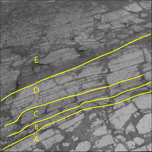 Layers visible inside Endurance crater (credit NASA/JPL/Cornell). Yellow lines were drawn to mark the transition between layers of bedrock.